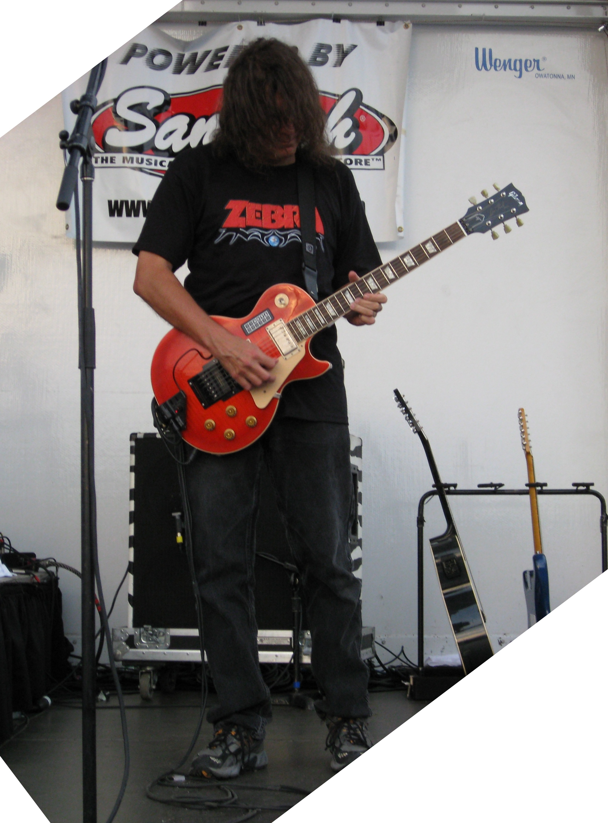 Randy Jackson of Zebra performing live at the Long Island Maritime Festival